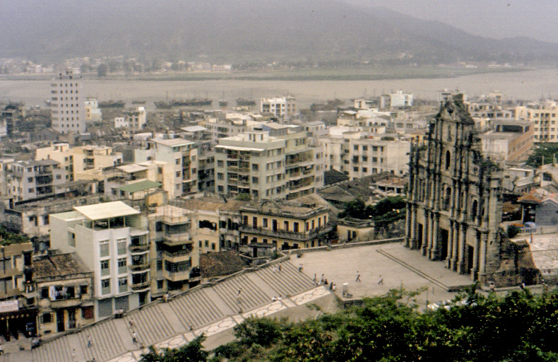 Macau in 1981, Ruins of St. Paul's Cathedral seen from the Hill Fortress